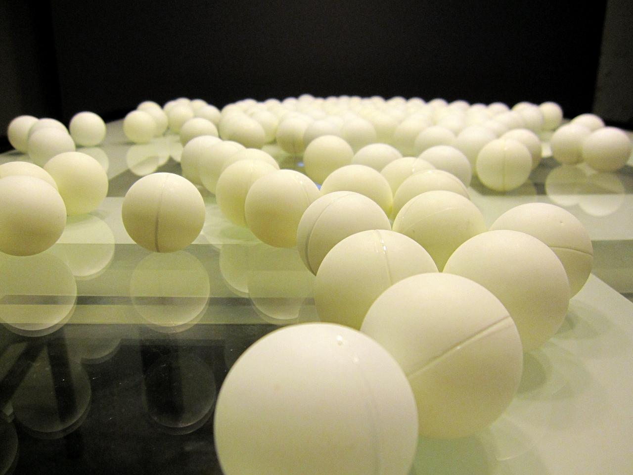 Got a set of ping pong balls in for a project. Had to play with them before anything else